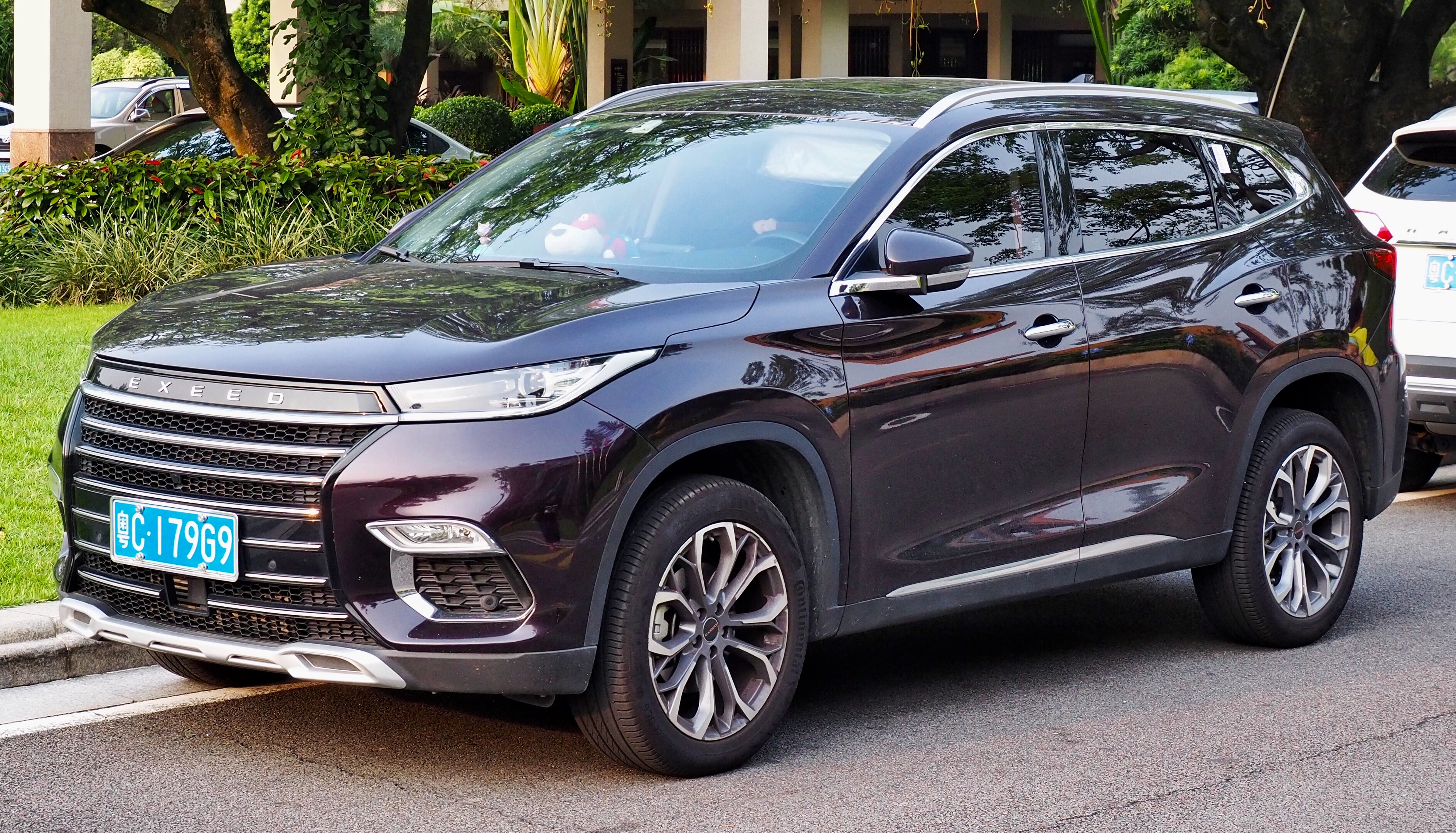 A 2019 Exeed TXL photographed in Zhongshan, Guangdong province, China. 中文（中国大陆）: 一辆2019年的星途TXL，摄于中国广东省中山市。